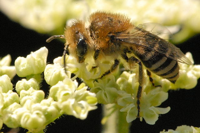 Colletes similis from Commanster, Belgian High Ardennes .